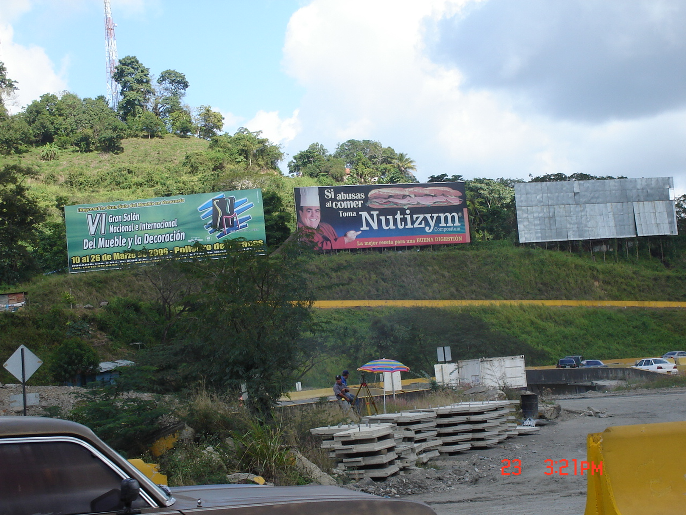 The Chuspita exit, ending of the old section Guatire - Chuspita, from there begins the newly built section the Caucagua city.